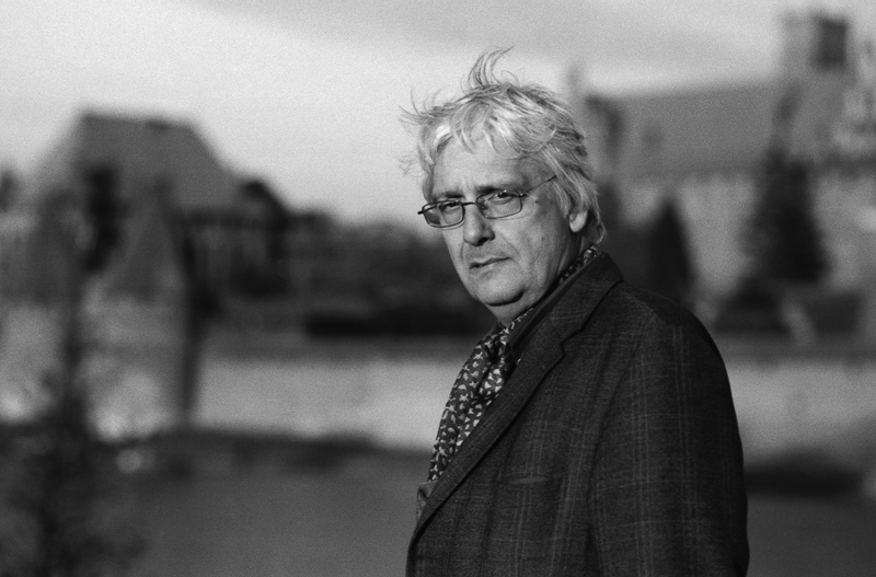 Albrecht Lempp